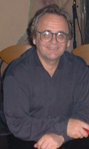 Sylvester McCoy (Doctor no 7, Dr Who) at Fab Cafe, Manchester